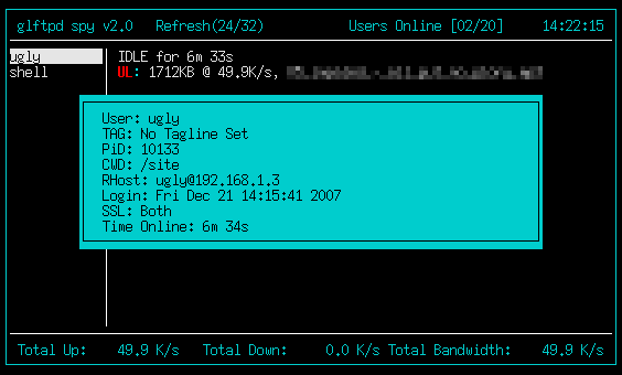 Screenshot of gl_spy, a monitoring tool for glFTPd